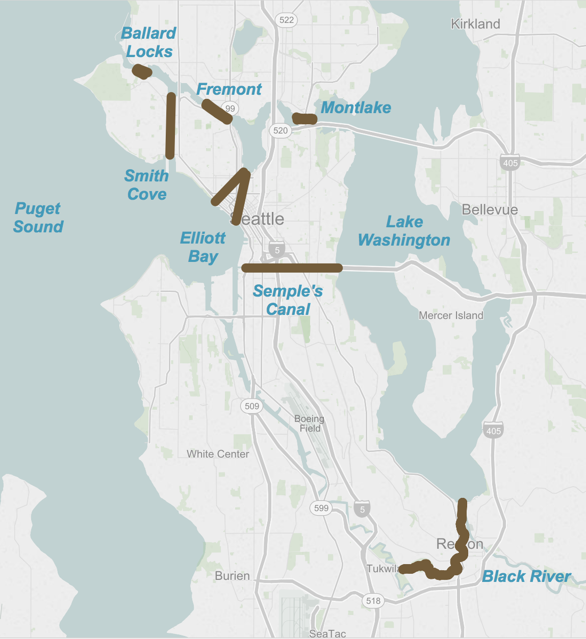 Proposed Seattle canals connecting Lake Washington to Puget Sound prior to the construction of the Hiram M. Chittenden Locks